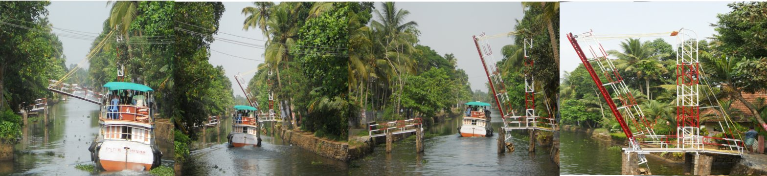 Bridges operating manually in kuttanad, Kerala